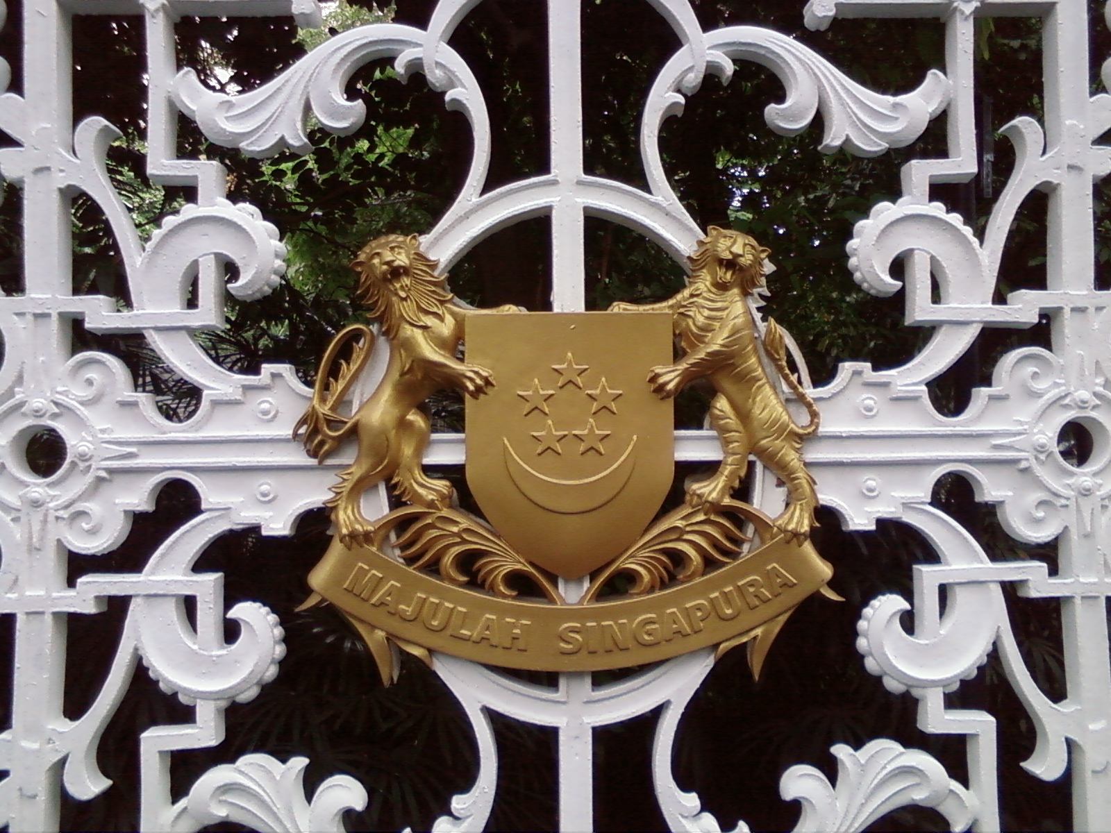 A golden version of the National Coat of Arms of Singapore on the main gate of the Istana.